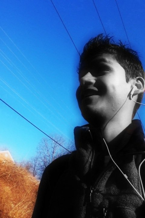 this is the picture i took, and changed the color in some part.